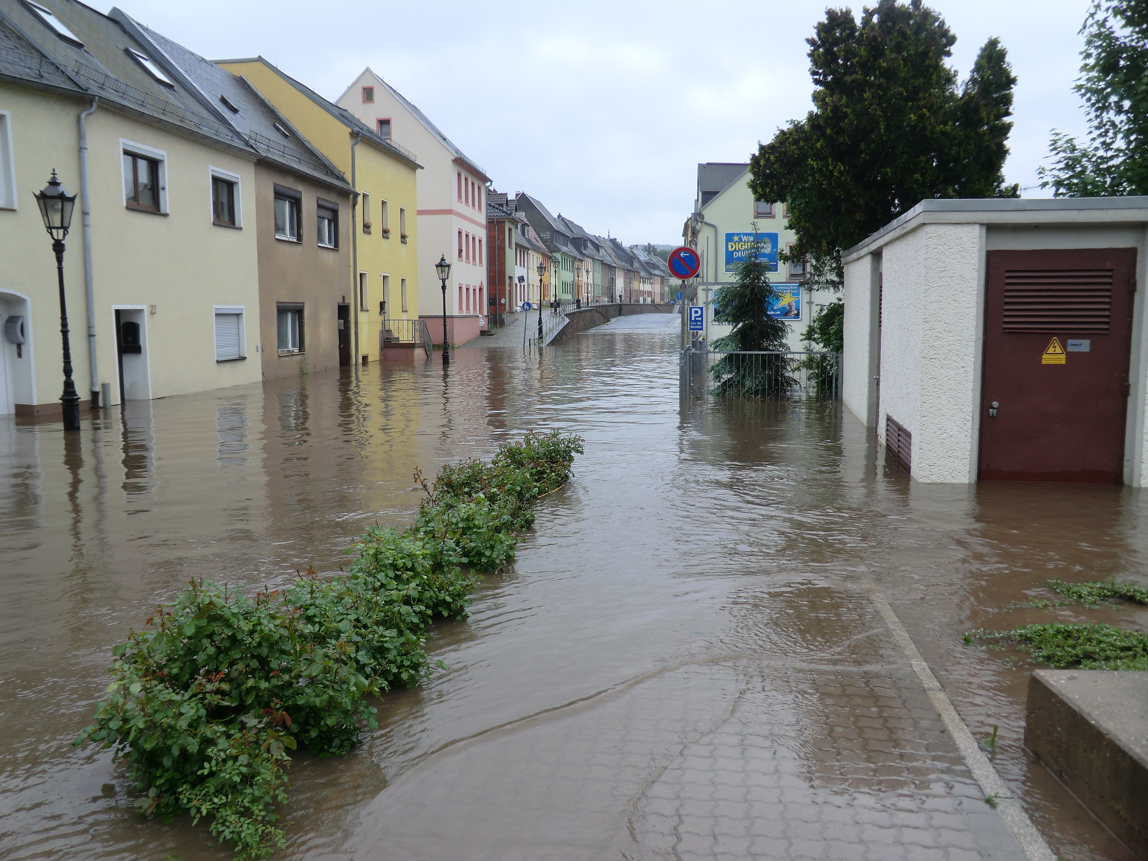 Juni 2013 Creative Commons Licence BY 2.0 Quellenangabe / Credit: Photo by Maja Dumat